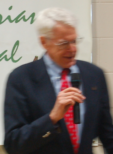 This was the only interesting talk of the afternoon. Caldwell Esselstyn, Jr., MD author of: Becoming Heart Attack-Proof: How to Prevent, Arrest, and Reverse Heart Disease